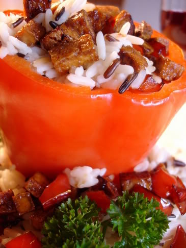 Vegan stuffed pepper with rice and tofu